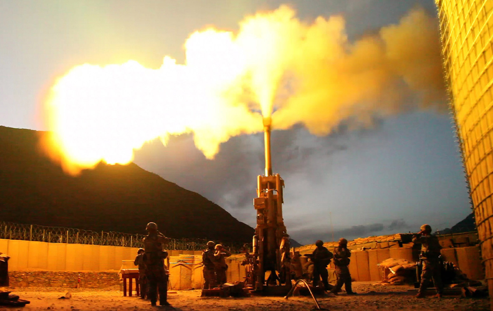 Soldiers with Battery C, 1st Battalion, 321st Airborne Field Artillery Regiment, 18th Fires Brigade, 82nd Airborne Division from Fort Bragg, N.C., fire 155mm rounds using an M777 Howitzer weapons system, July 6, on Forward Operating Base Bostick, Afghanistan. The Soldiers were registering targets so they will have a more accurate and faster response time when providing fire support.